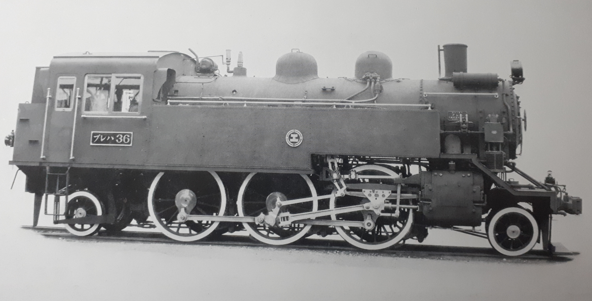 Pureha-class locomotive number 36 of the Chosen Government Railway